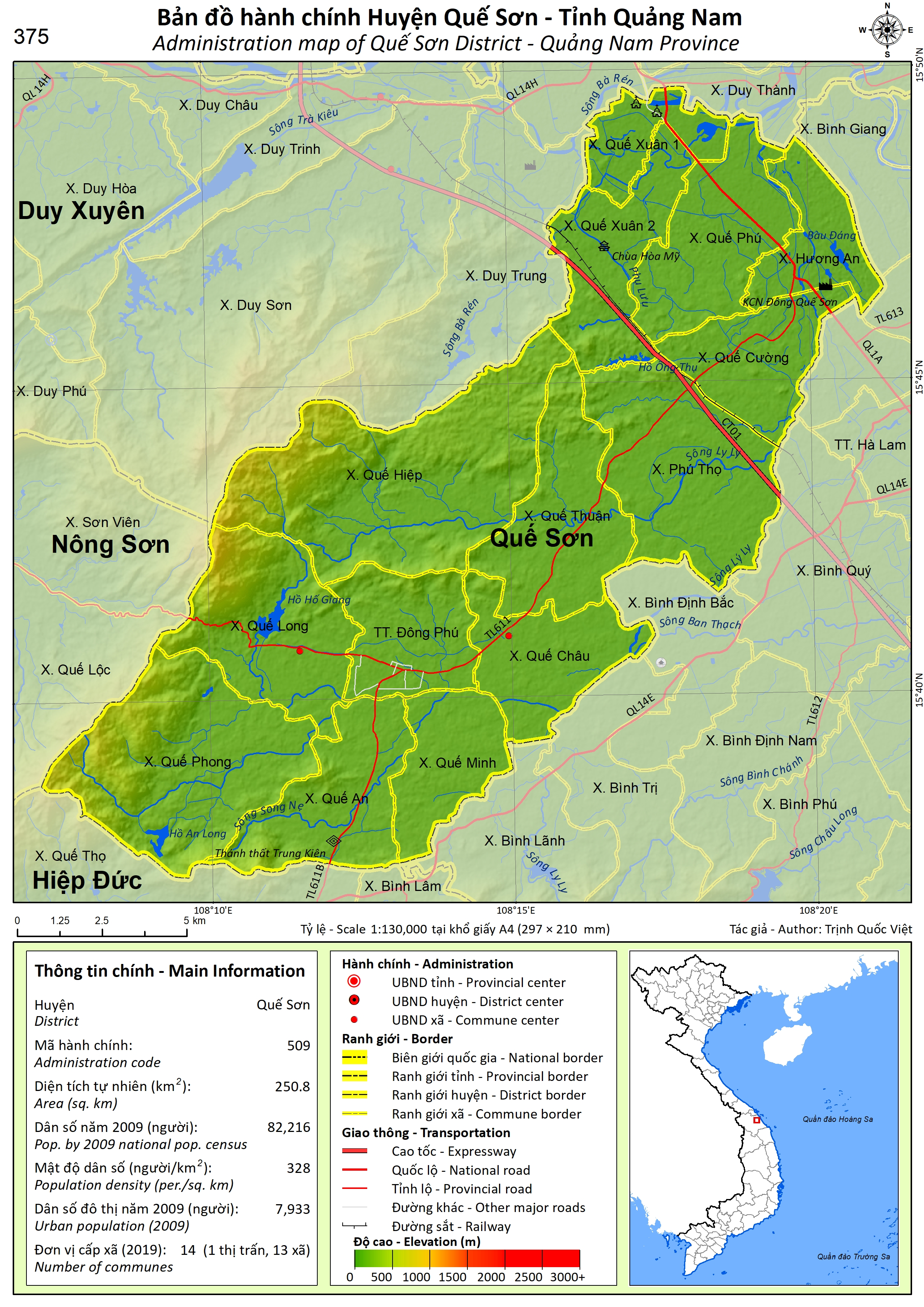 Administration map of Que Son District, Quangnam Province